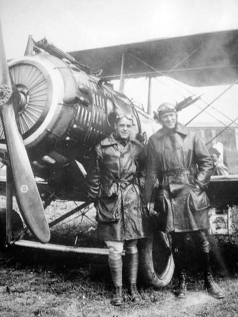 Pilots of the 99th Aero Squadron with a Salmson 2A2 at Parois Airdrome, France